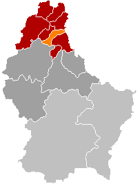 Munshausen municipality location (valid until 1 January 2012). Own edit of Kanton ClervauxLocatie.png